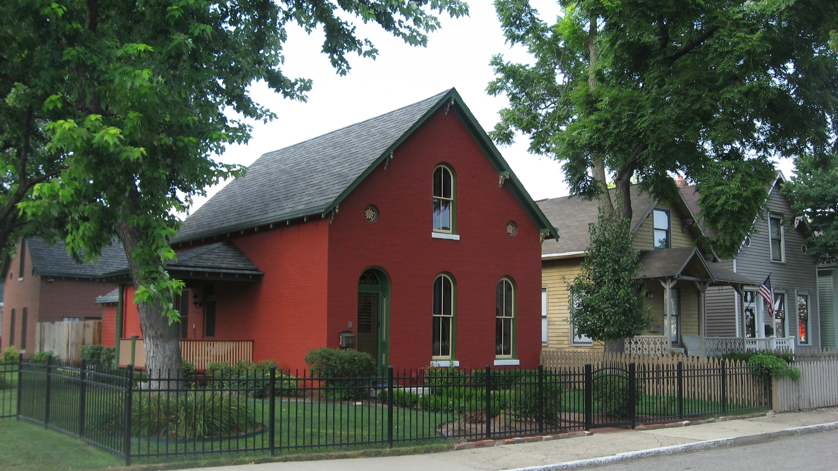 Houses on the northern side of the 600 block of E. Arch Street, looking northeastward from the Broadway intersection, in Indianapolis, Indiana, United States. Built in 1870, these houses are part of the Chatham-Arch Historic District, a historic district that is listed on the National Register of Historic Places.